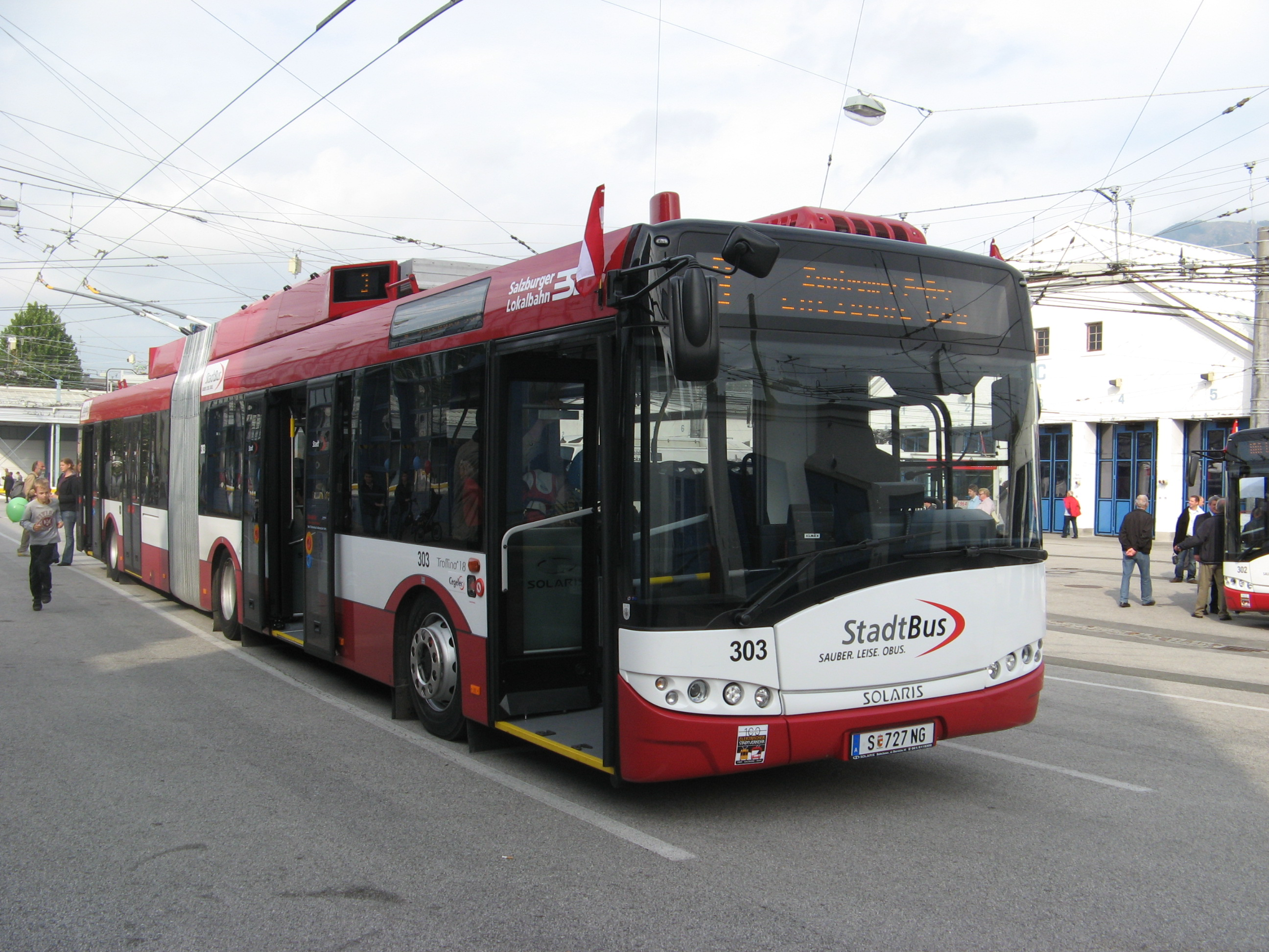 Solaris Trollino 18AC trolleybus (#303, reg. S-727 NG, built 2009) in Salzburg, Austria.